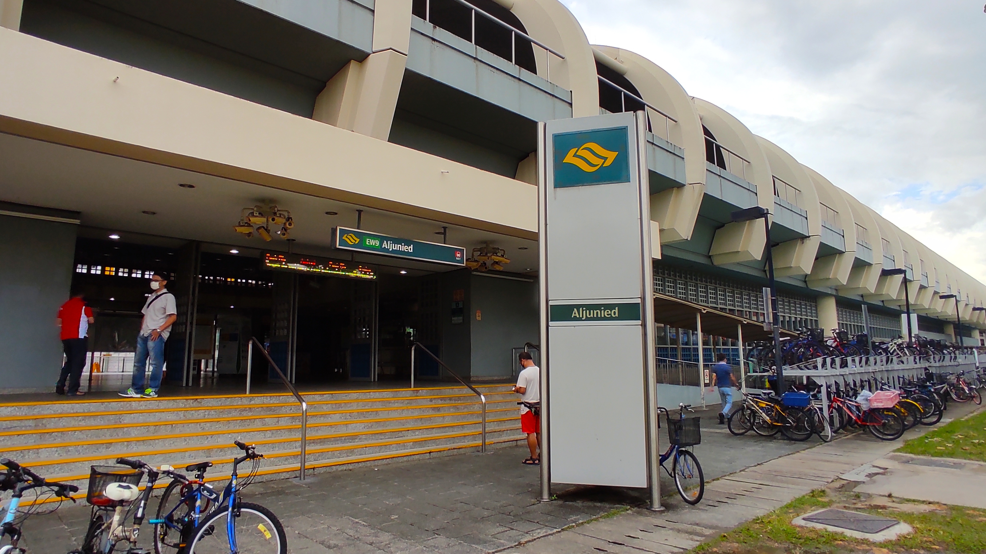 EW9 Aljunied Exit A